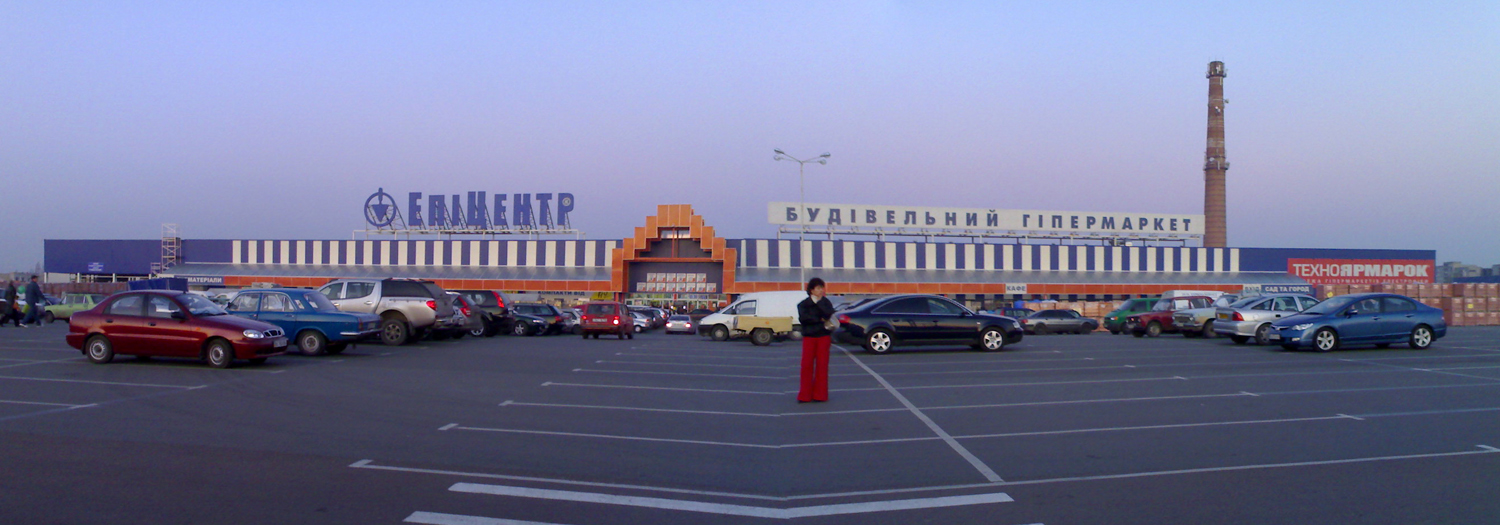 EpiCentre K supermarket in Lviv, Ukraine